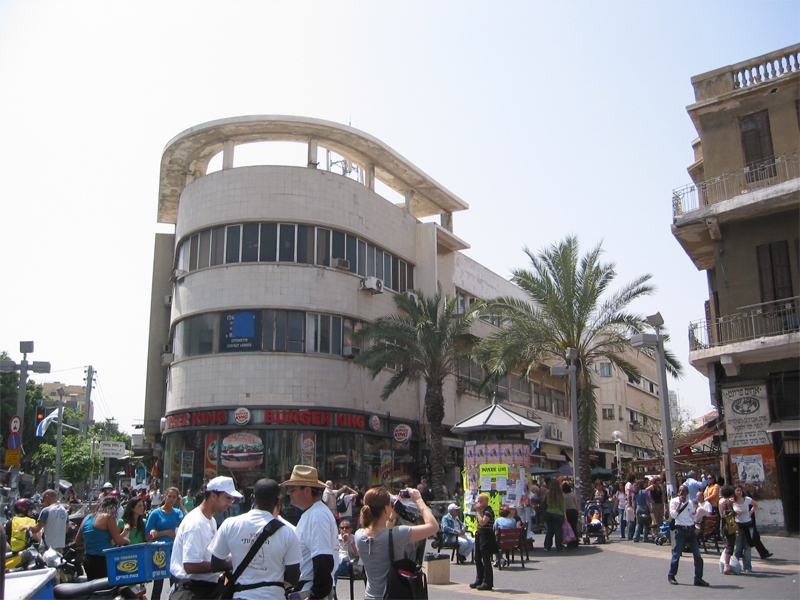 Polishuk House in Allenby Street, Tel Aviv